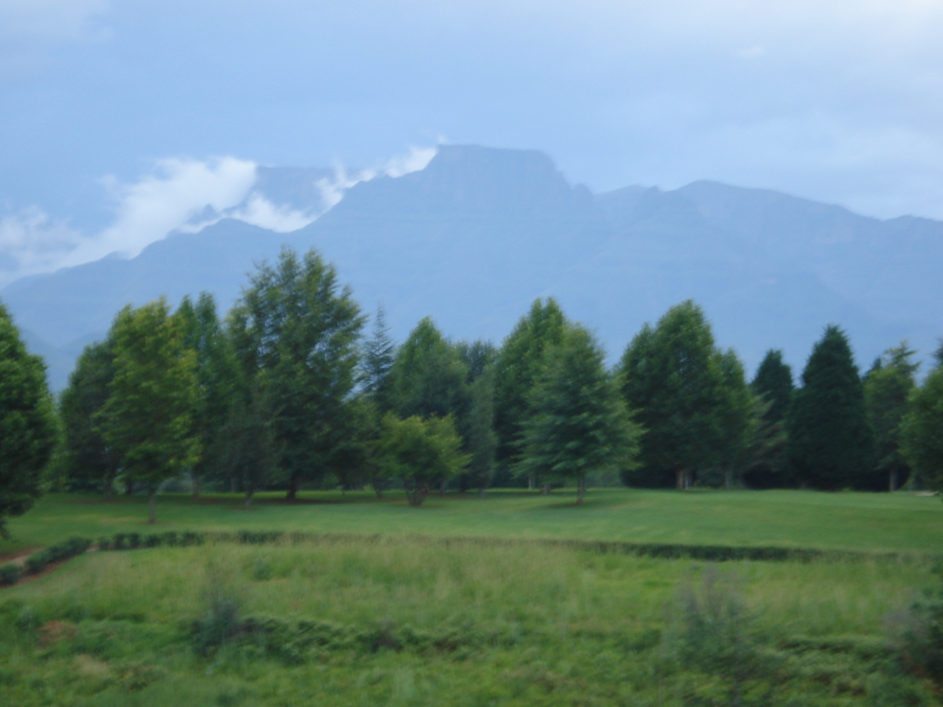 Cathkin Peak, 3182m above sea level in the foreground, and Champagne Castle, 3377m a.s.l., surrounded by clouds in the background, KwaZulu-Natal Drakensberg, South Africa